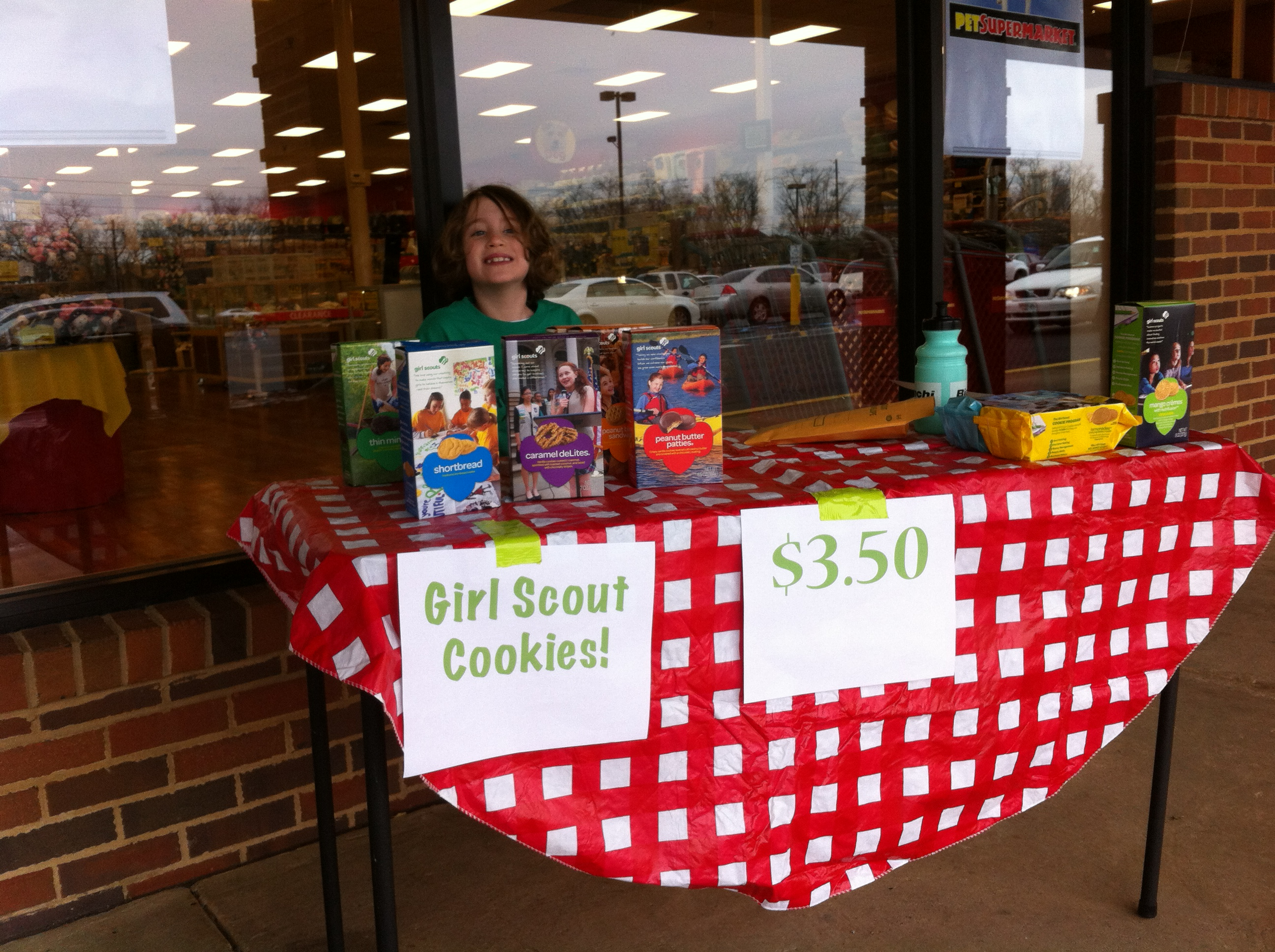 A young human person of the female persuasion selling Girl Scout cookies to support her local troop.